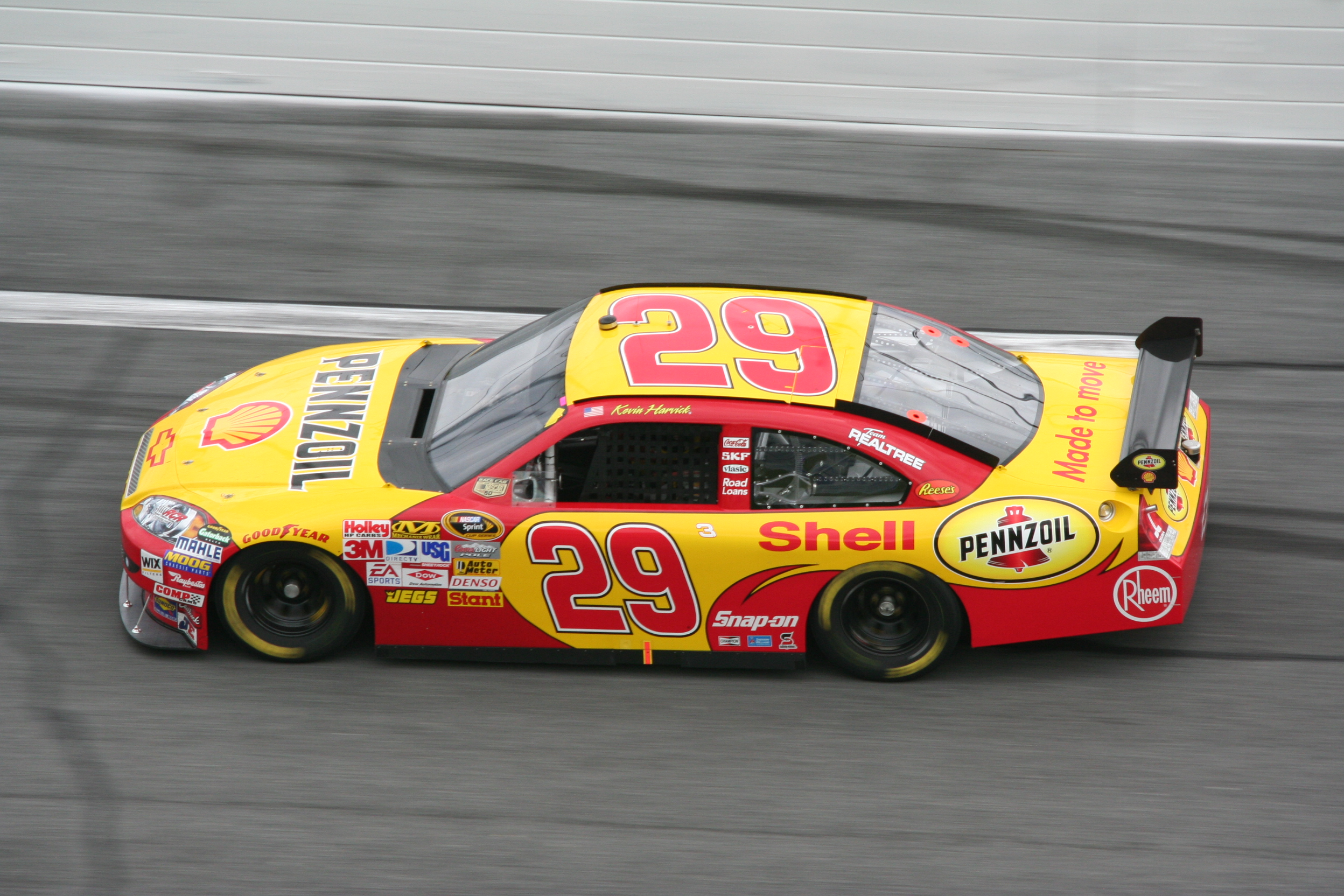 Shot by "The Daredevil" at Daytona during Speedweeks 2008Kevin Harvick Shell Pennzoil Chevy Impala